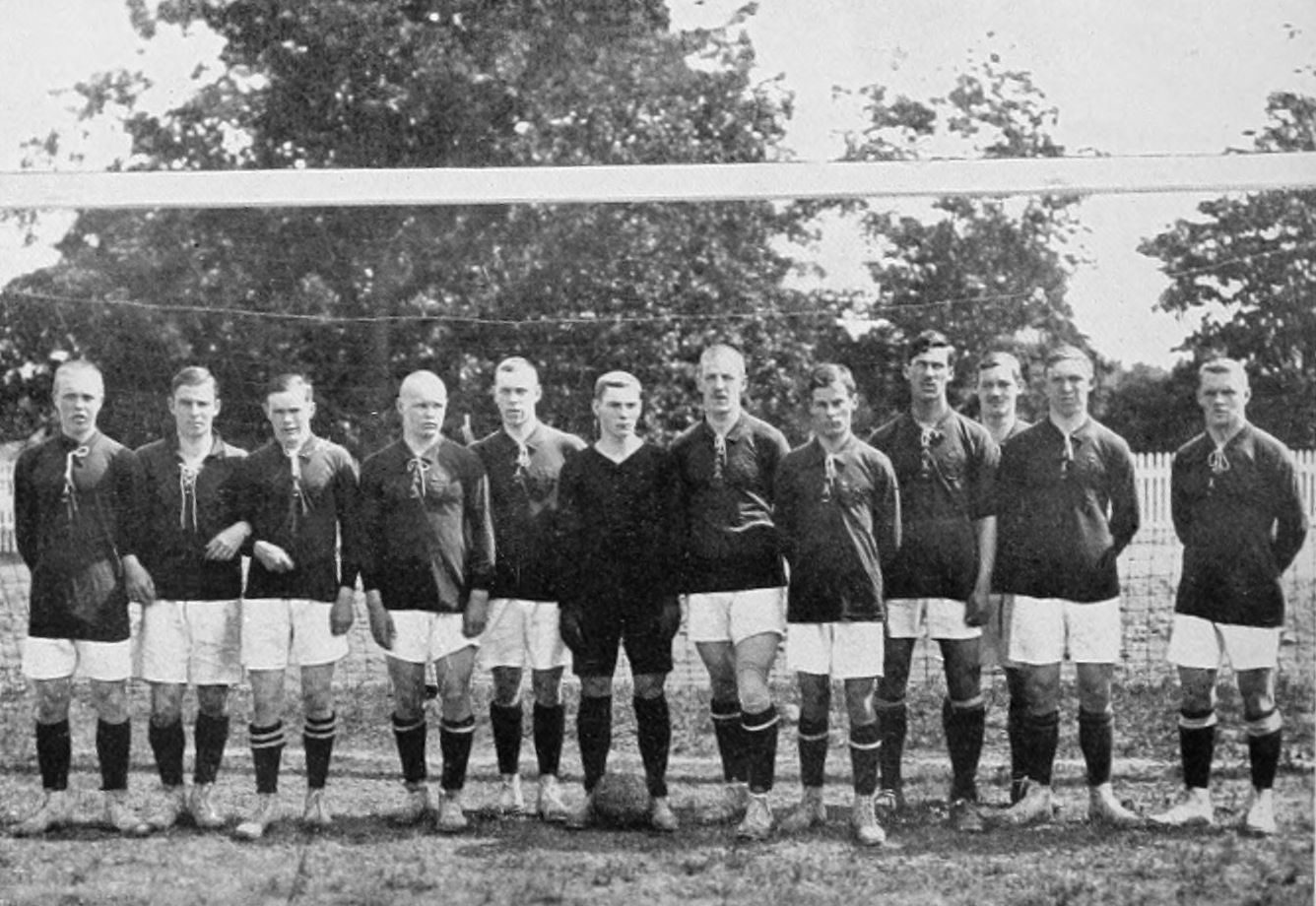 Finland national football team at the 1912 Summer Olympics.